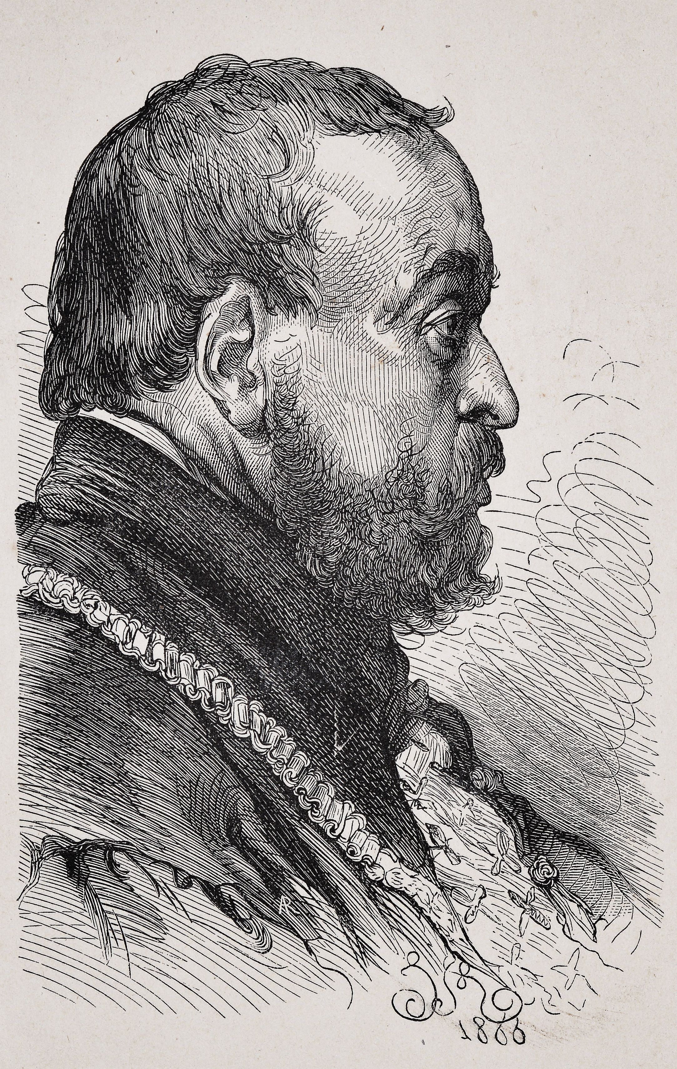 Łukasz III Górka (ok. 1533 - 1573), engraving by Aleksander Regulski after the drawing by Jan Matejko